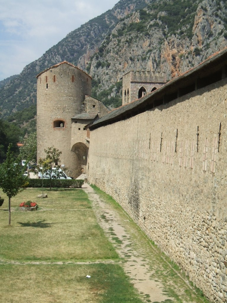 Villefranche-de-Conflent (département of Pyrénées-Orientales, Languedoc-Roussillon région, France) : city fortification wall. Tour du Diable (the Devil's Tower).